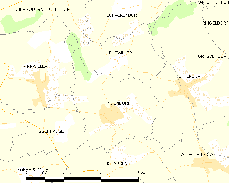 Map of French municipality